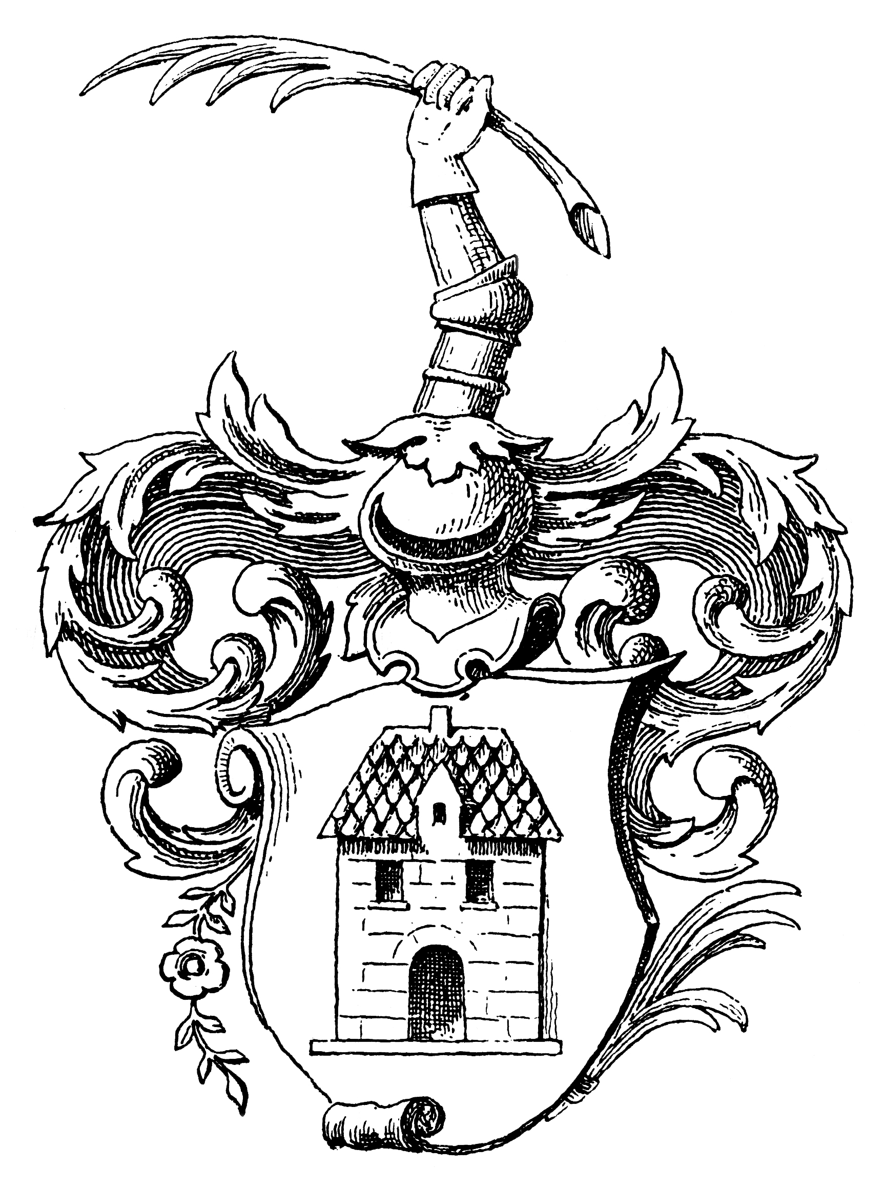 Coat of arms of the Danish family (Dornonville de) la Cour.